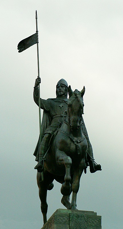 Equestrian statue of Wenceslaus I, Duke of Bohemia in Prague (Czech Republic).